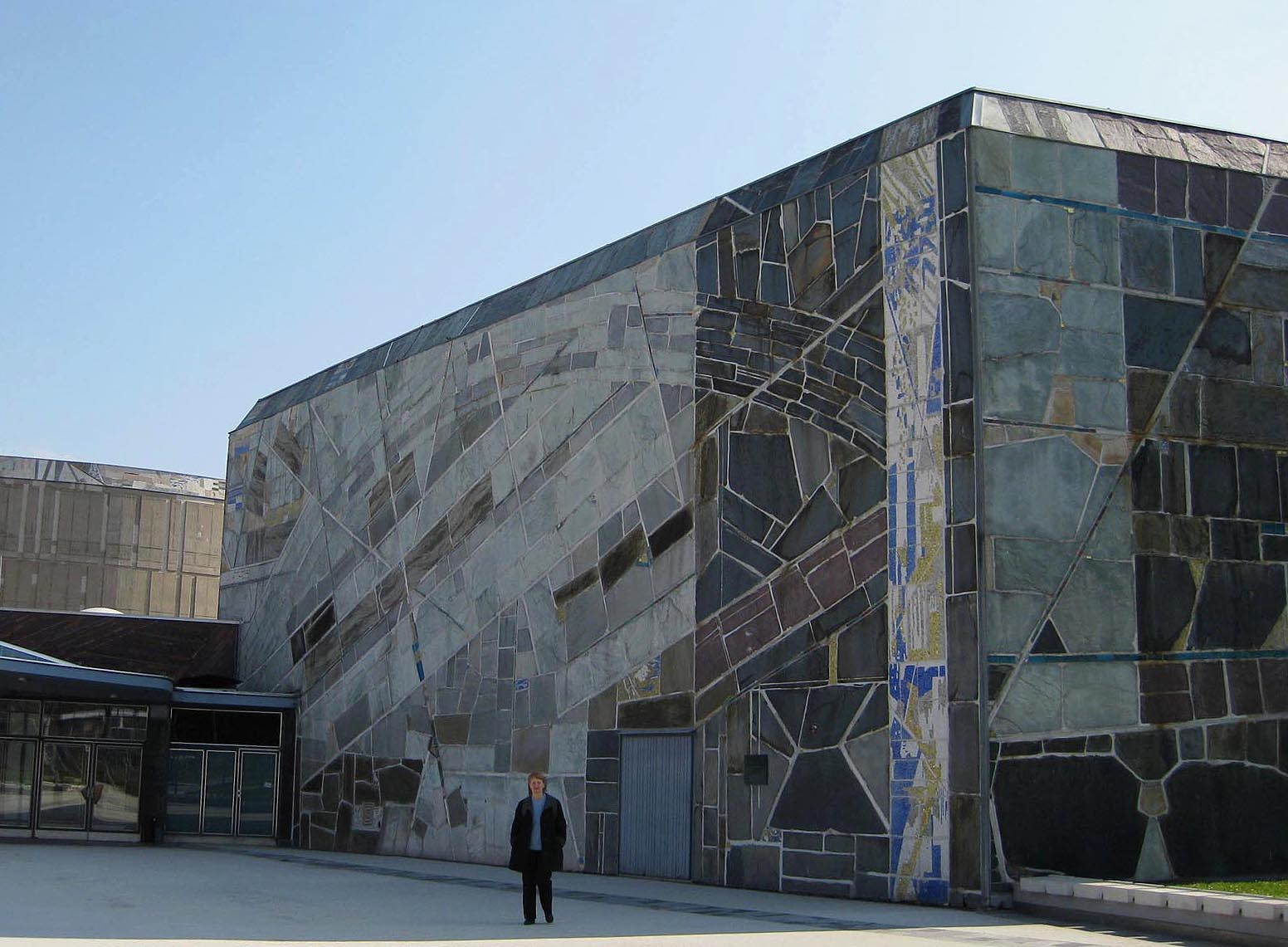 Sculptures in Stuttgart, Blasius Spreng, mosaik-façade, 1956